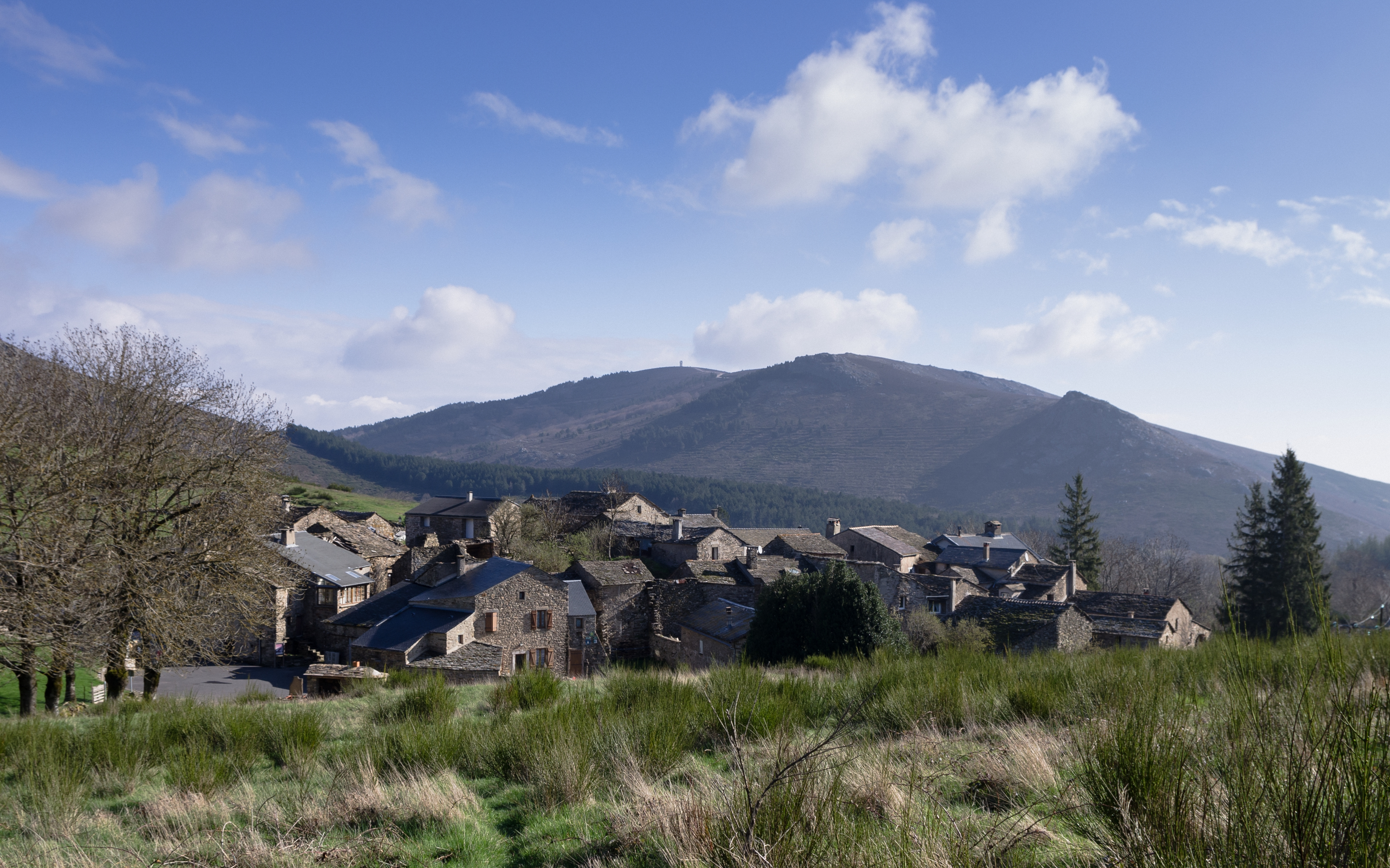 The hamlet of Douch, commune of Rosis, Hérault, France. Haut-Languedoc Regional Natural Park.